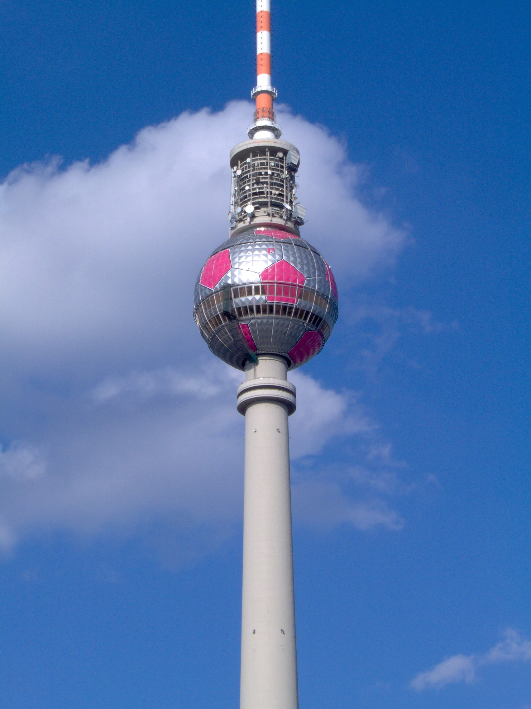 The Fernsehturm sphere decorated as a football in the runup to the World Cup 2006.